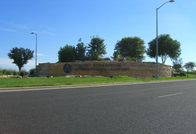 Entrance of Austin Bergstorm Intl Airport